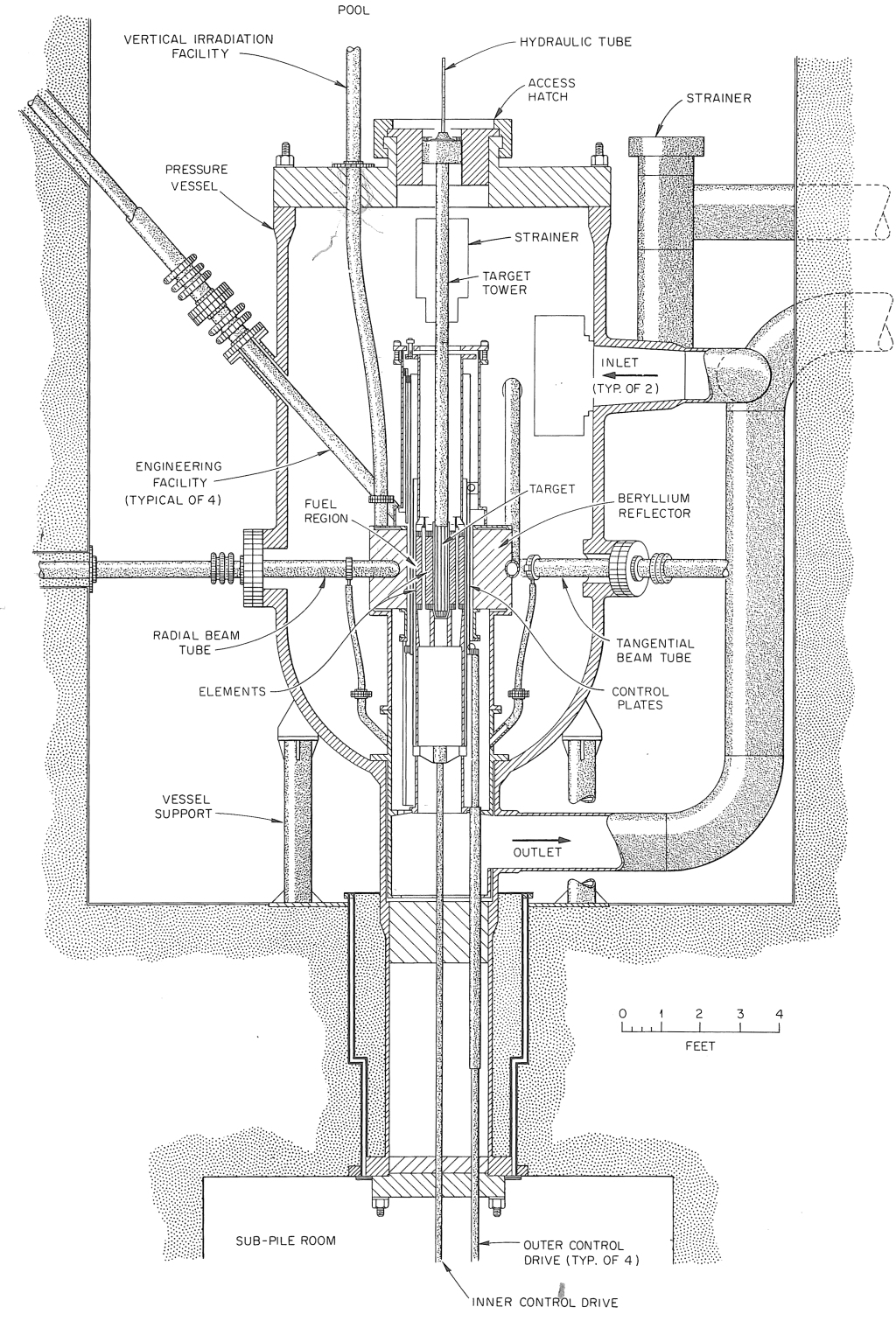 High Flux Isotope Reactor Vertical Cross Section